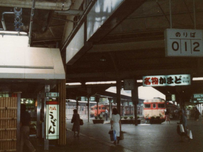 Inside of Takamatsu Sta. at 1982.